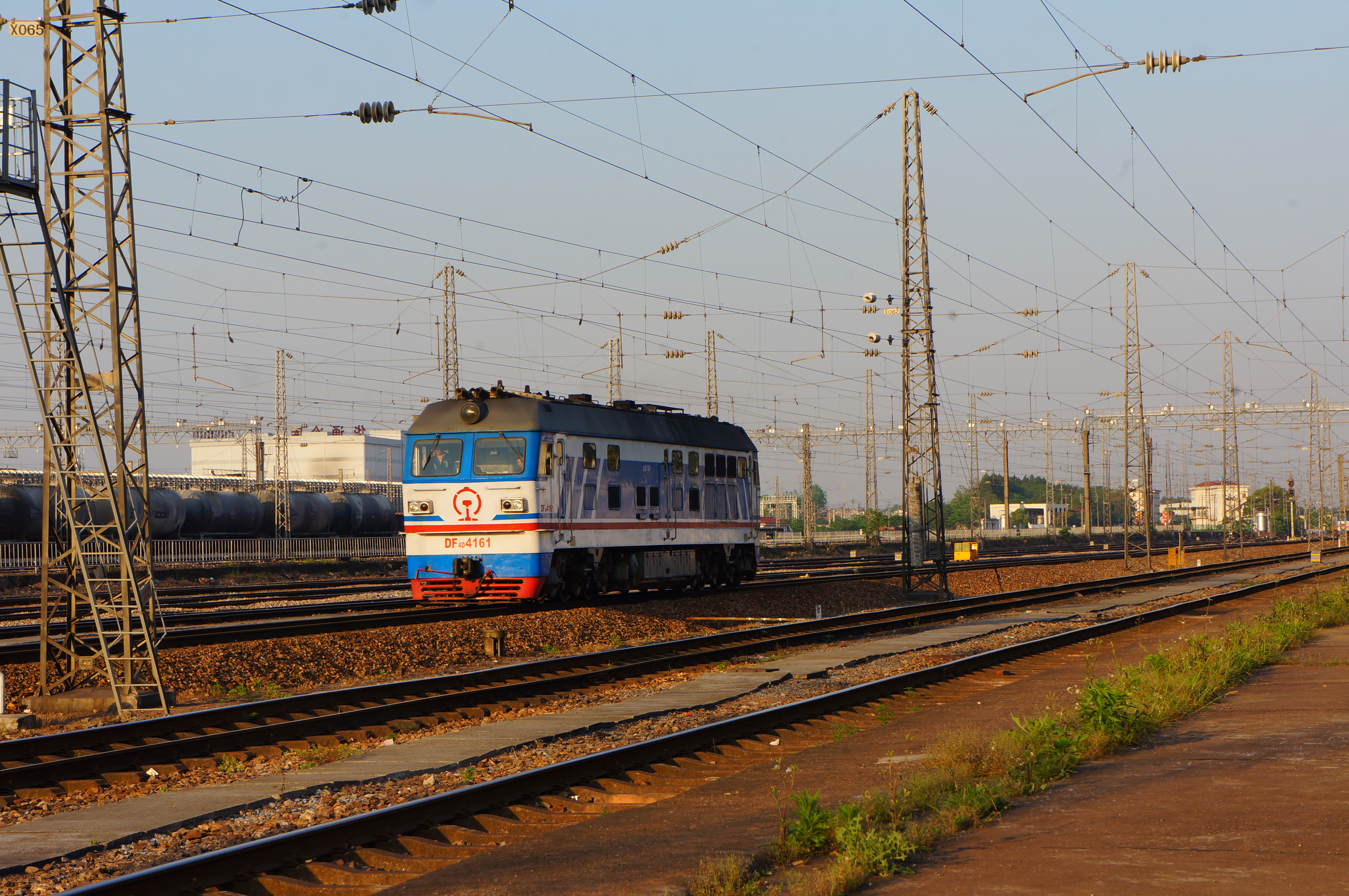 201704 DF4D-4161 from Jinhuanan at Jinhuadong Station, then it will travel to Jinhua Station to haul the train K1258